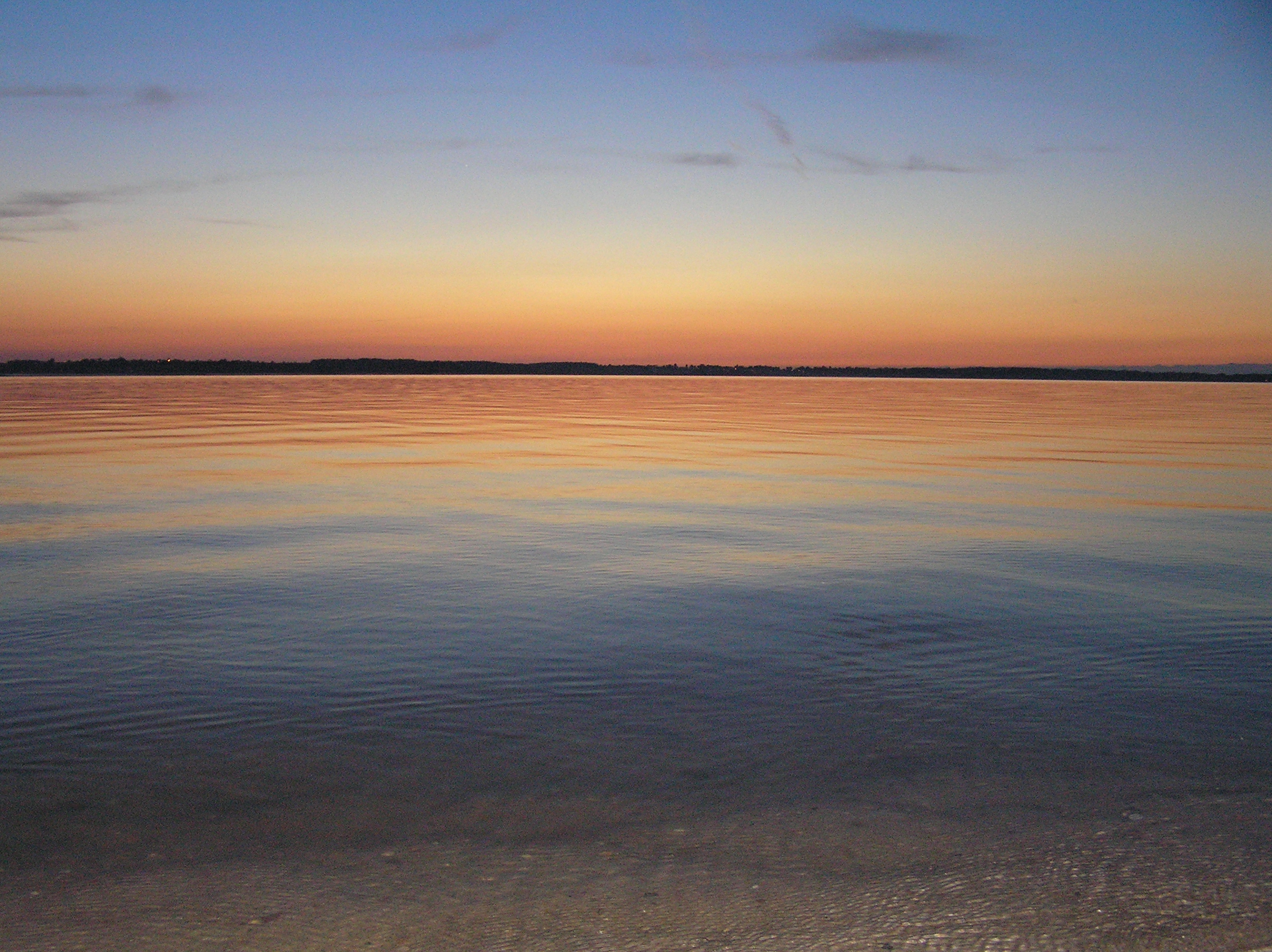 The Bay of Puck in Rewa.